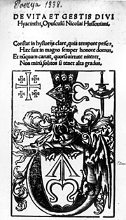 The first page of De vita et gestis Divi Hyacinthi by Nicolaus Hussovianus Беларуская (тарашкевіца): Першая старонка выданьня Мікалая Гусоўскага з выяваю герба Адрованжаў-Шыдлавецкіх.